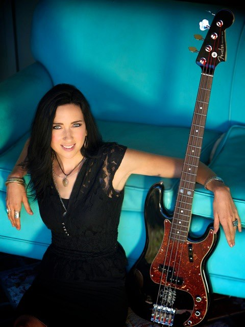 Eva Gardner with her signature Fender Precision Bass (2013)